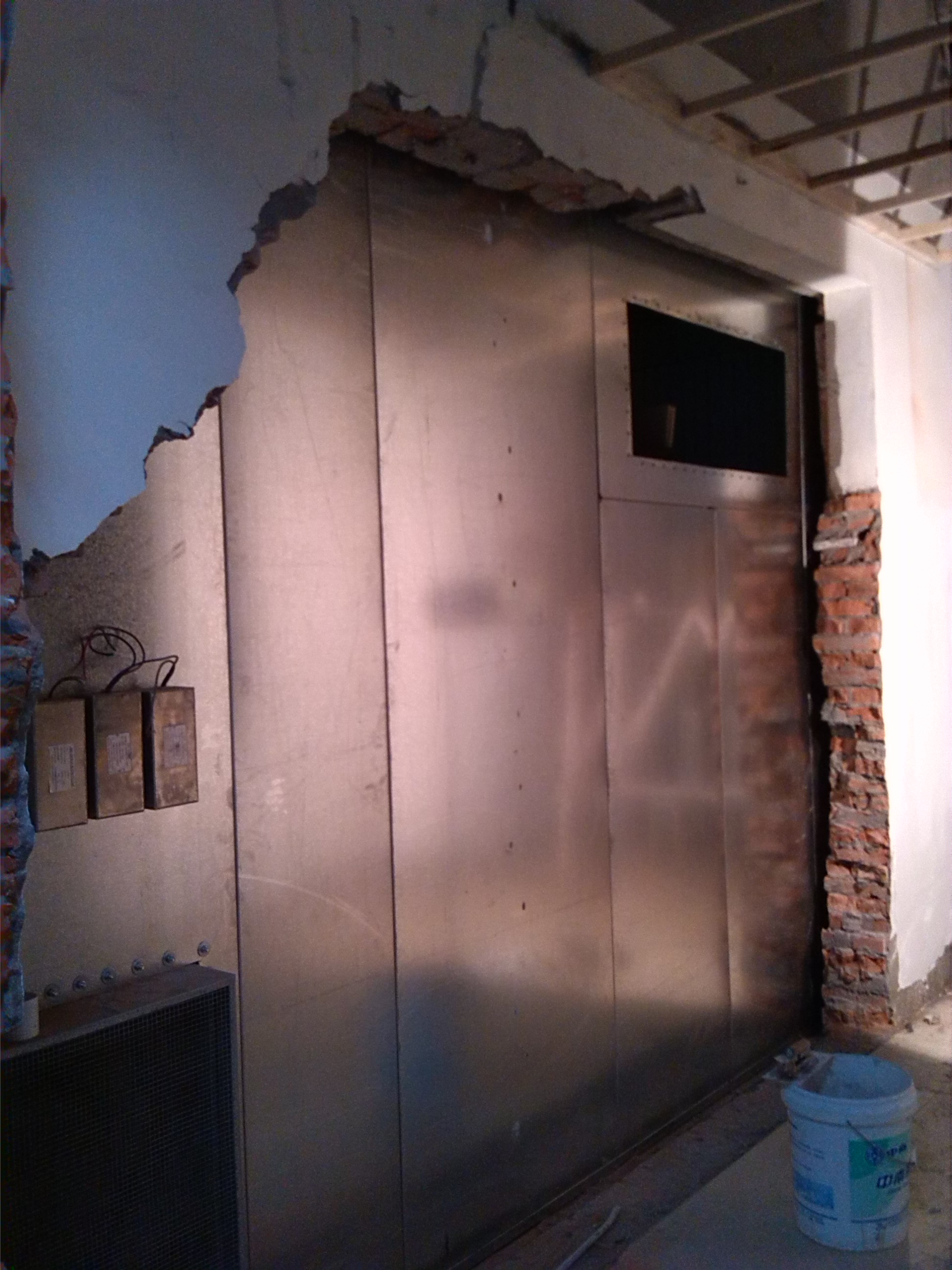 MRI RF shielding at a general hospital.